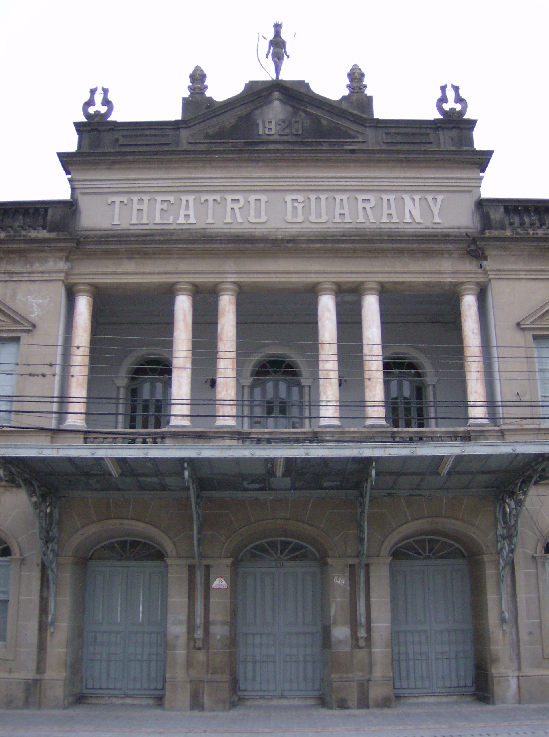 Teatro Guarani (Theatro Guarany in Archaic Portuguese), a teatre in Pelotas, state of Rio Grande do Sul, Brazil